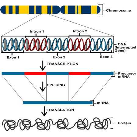 This briefly details the steps in the translation of a protein from a DNA sequence.